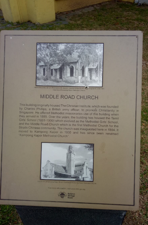 Plaque outside 155 Middle Road, to mark its status as a historic site by the National Heritage Board, Singapore in 2000.